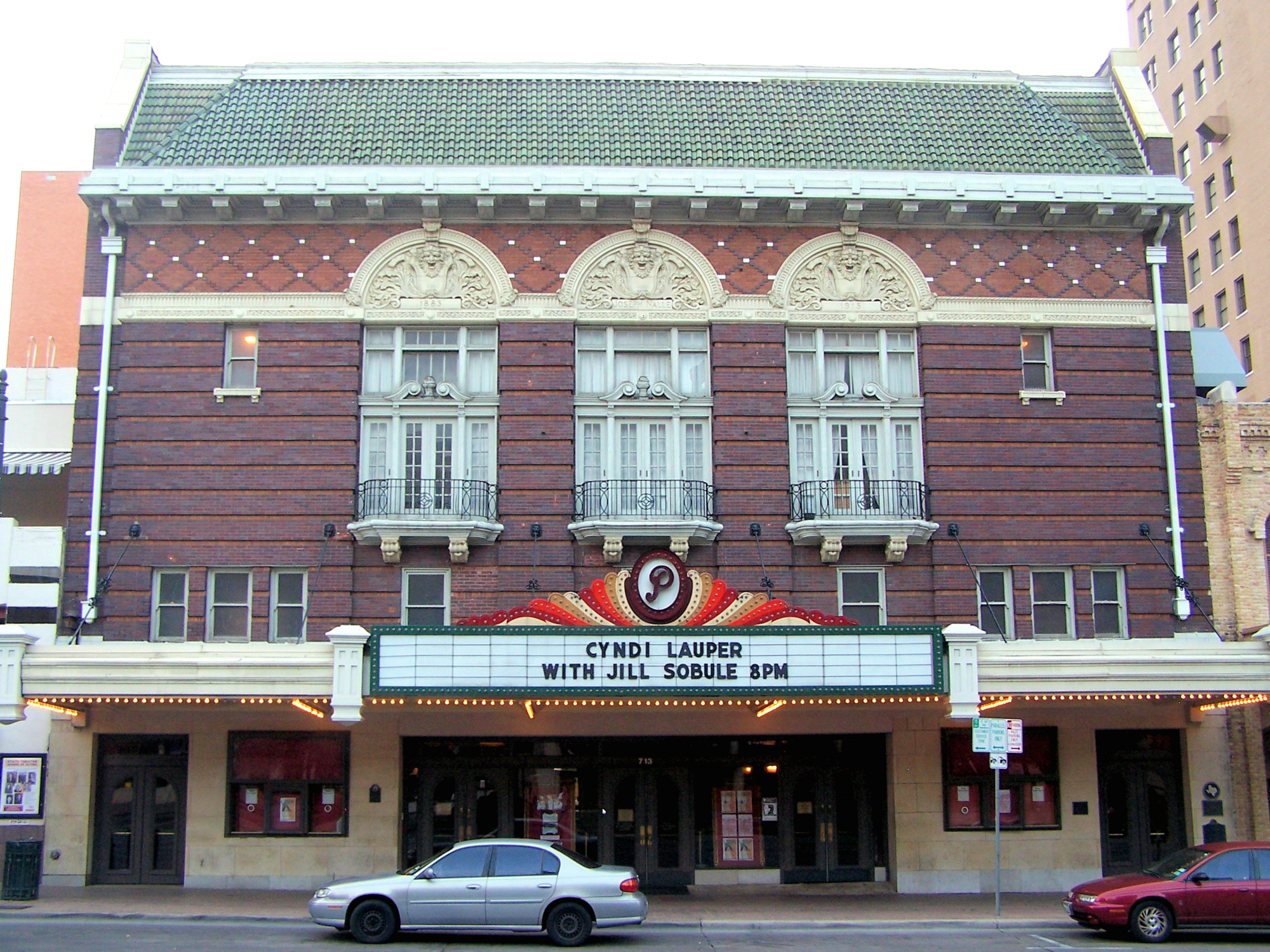 The Paramount Theater, a classical revival style structure completed in 1915 and located at 713 Congress Ave, Austin, Texas, United States. The building was listed in the National Register of Historic Places on June 23, 1976.